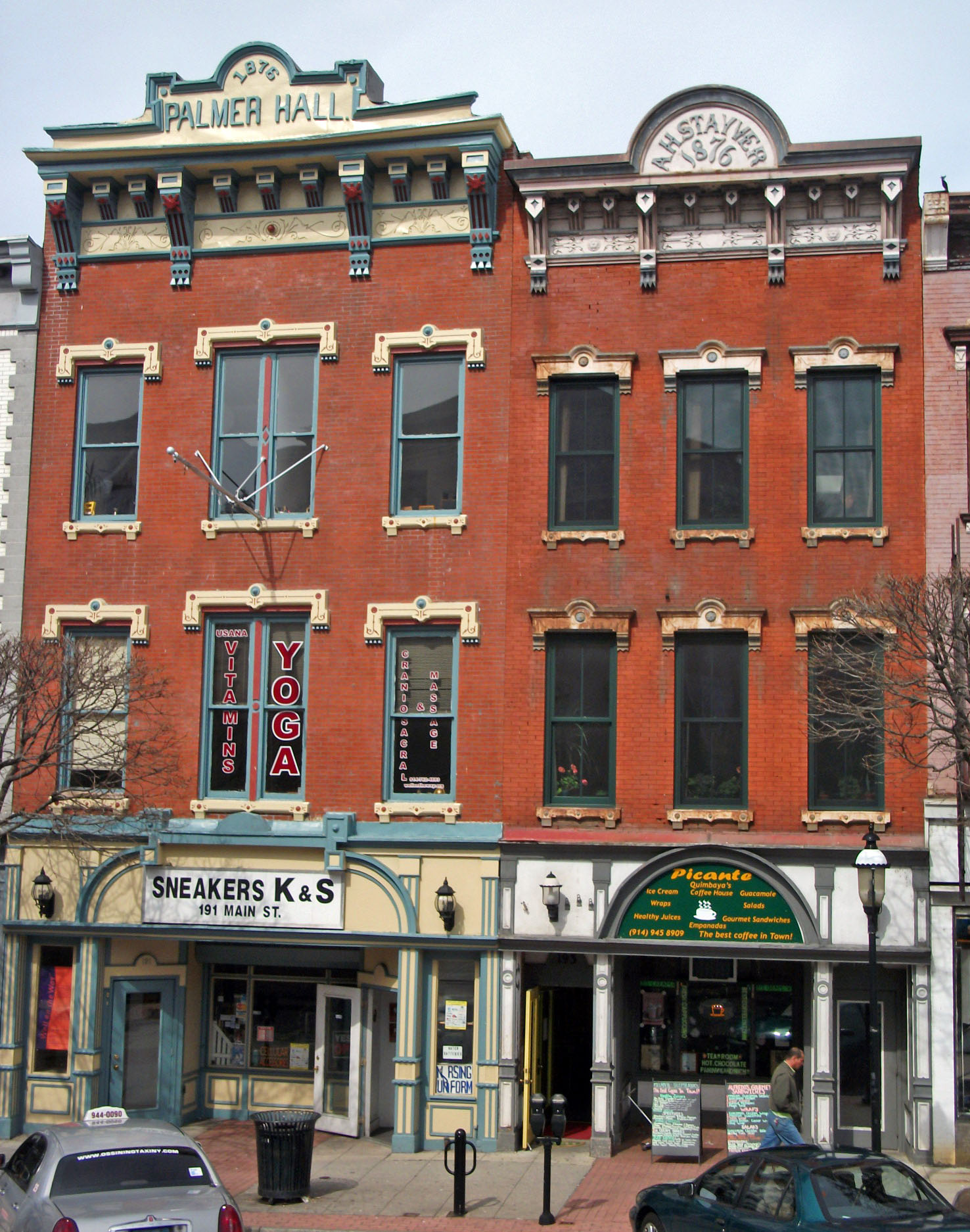 Palmer Hall and Stayver Building, 191 and 193 Main Street, Ossining, NY, USA, contributing properties to the Downtown Ossining Historic District rebuilt with current Neo-Grec detailing after 1874 fire